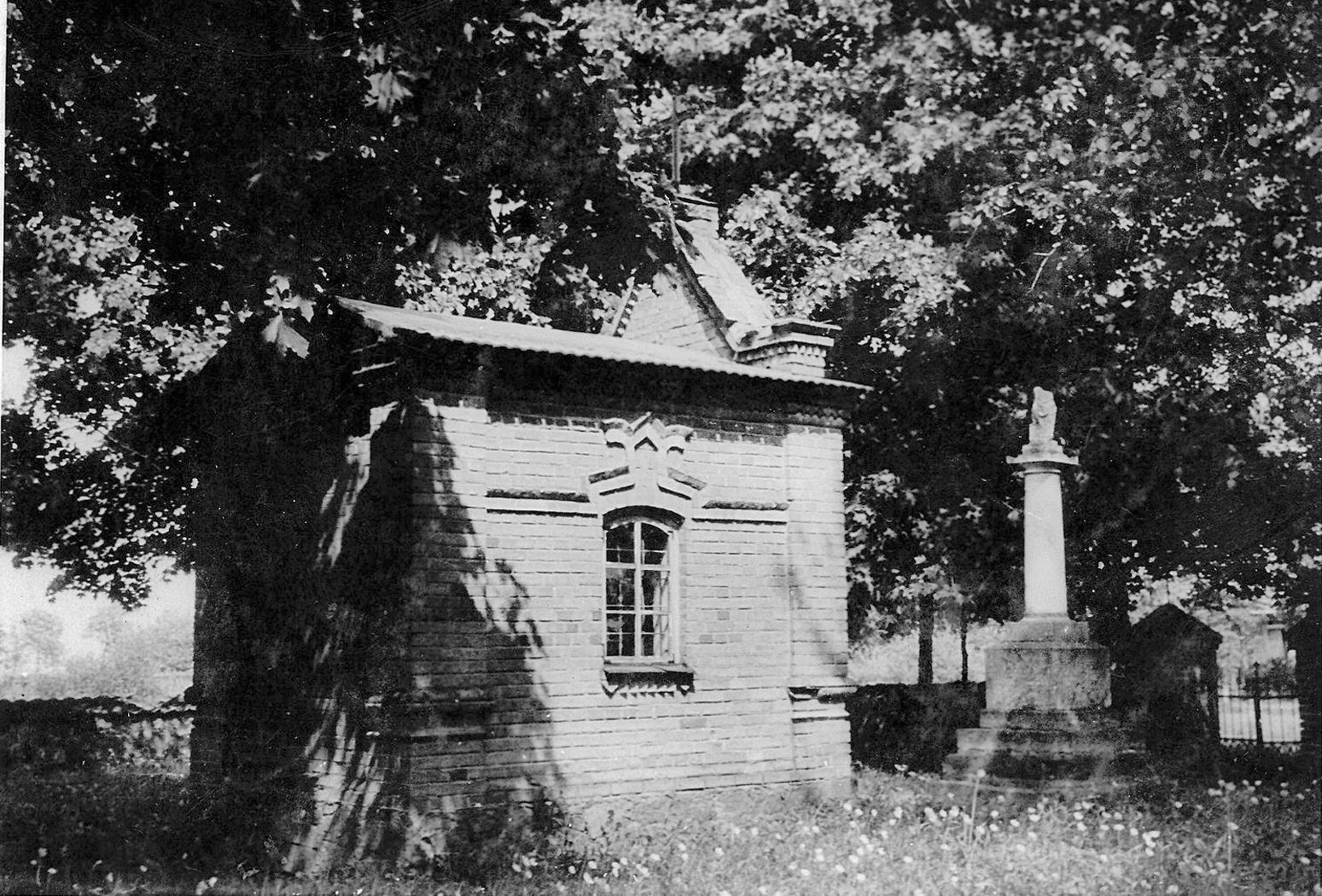 Cemetery chapel, Pazūkai, Panevėžys district, Lithuania